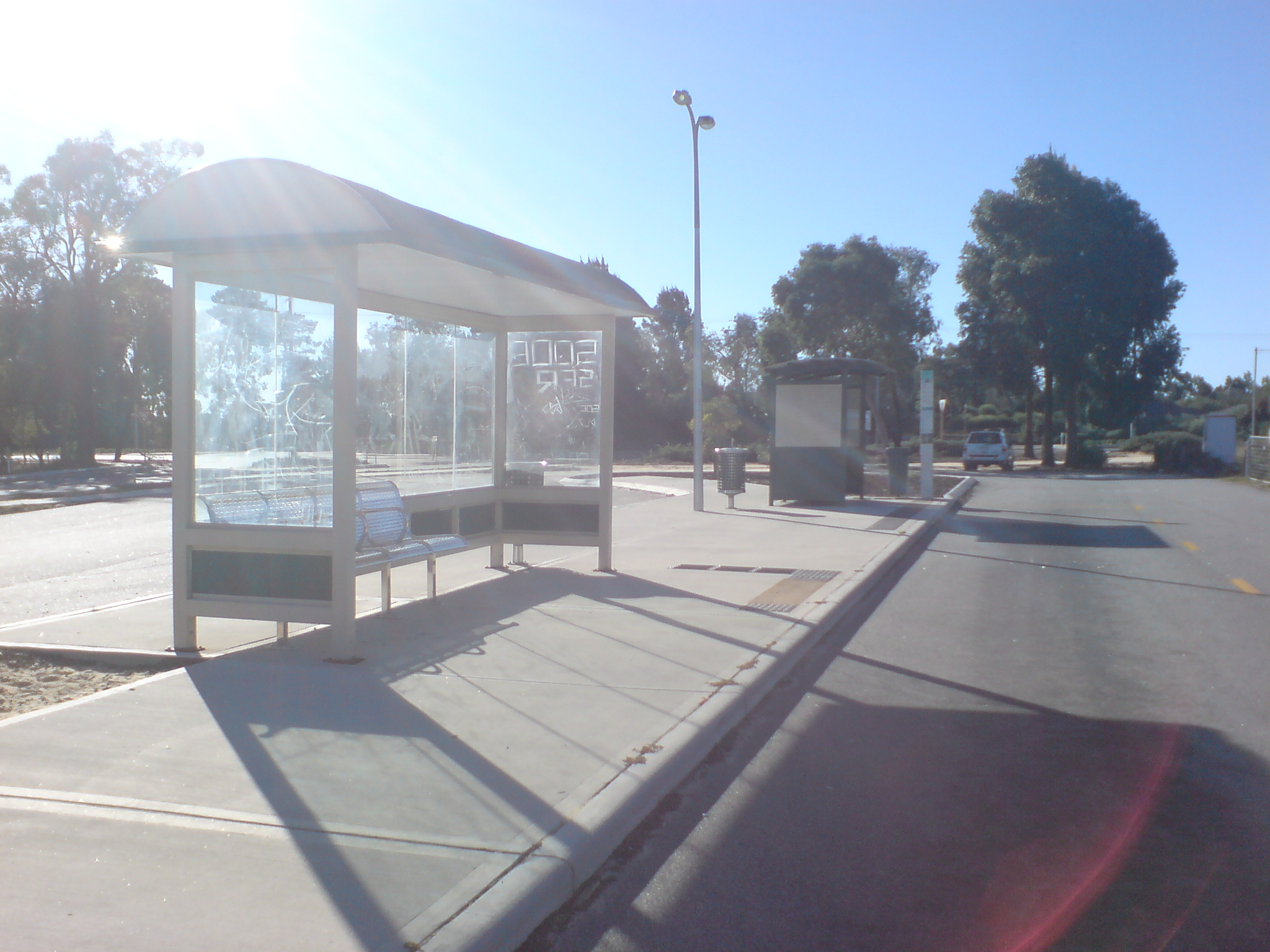 A bus stop at Ellenbrook Transfer Station, at the corner of Ganagara Road and Lord Street, opposite Barrambie Way.